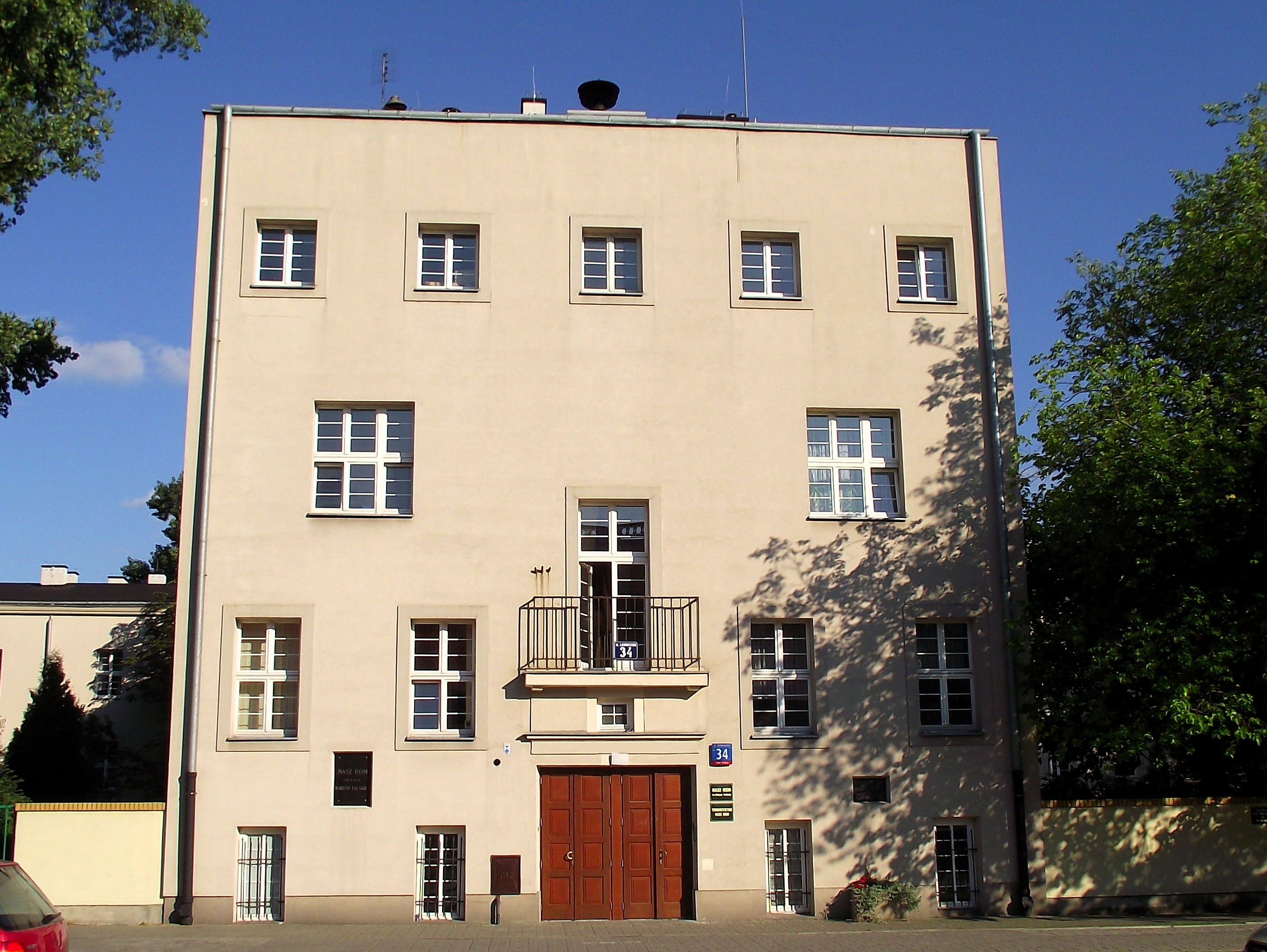 Front view of the building by 34 Zjednoczenia Avenue in Warsaw, Bielanów district. Built in 1927, one year later was established a new domicile of the "Nasz Dom" (pol. "Our Home") orphanage founded in 1919 by Maryna Falska and Janusz Korczak in Pruszków.